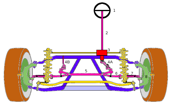 A schematic showing an Ackermann (or conventional) steering linkage. The image was made based on the images at , , , and based on information in the book "Zo werkt uw auto" by Rien Tholenaar & Carel Zaal. 1: steering wheel 2: steering shaft 3: steering gearbox 4A: pitman arm 4B: idler arm 5: centerlink 6: inner tie rod 7: adjusting sleeve 8: tie rod arms yellow: suspension shafts, shock absorbers & coil springs pink/red: steering linkage light green/dark green: tie rod arms/tie rod blue/light blue: (lower) frame/front part of the frame (there are 2 frame arms connected to each of the tie rod arms; the first arm (and the second for the frame of the rear wheels) has 2 standing pipes (in a cross-like setup) connecting the lower tie rod arm with the upper one, aswell as providing an extra attachment point for the steering linkage grey: wheel rim orange: wheel shaft (would normally run all the way trough around the height of the steering linkage, not shown for reasons of clearity brown: wheel tyre Note that the shock absorber/spring are connected to the upper frame (not shown) at the top; this holds the shock absorber/spring in place (together with the bottom connection). The top yellow axle is thus not intented to keep it in place; rather it is used to transfer shocks.